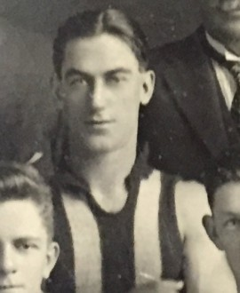 Photo of Les Harvey in 1932